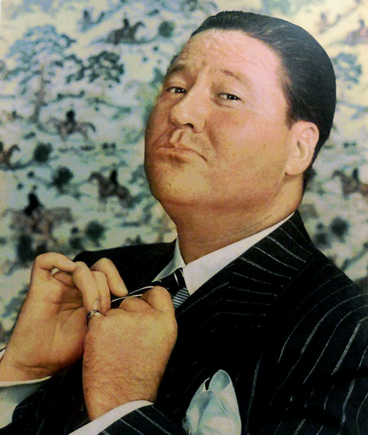 Photo of Jack Oakie published by the New York Sunday News in 1941. Dating is at upper right of uncropped photo.